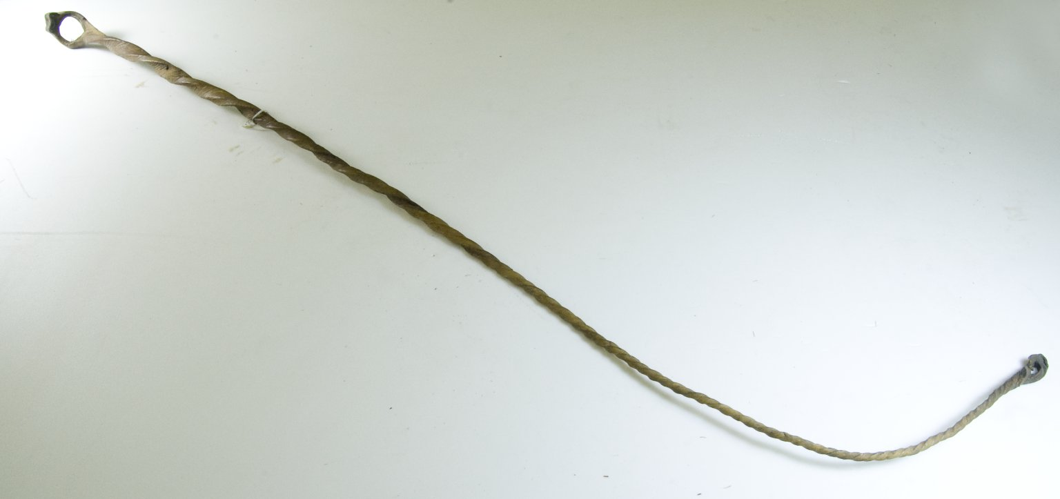 Twisted Rhinoceros Hide